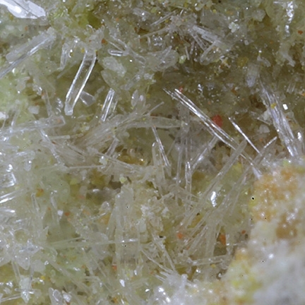 3.8 x 3.6 x 2.7 cm. A great rarity from California from the collection of Paolo Matioli featuring micro glassy crystals of the arsenic oxide, claudetite which is the monoclinic dimorph of arsenolite. The species was discovered in 1868, was named after F. Claudet, a French chemist. The label on this specimen states that micro orpiment, pararealgar and realgar are present as well. Likely from the Unnamed S prospect, 4-S Ranch area, Imperial Co., California, USA.